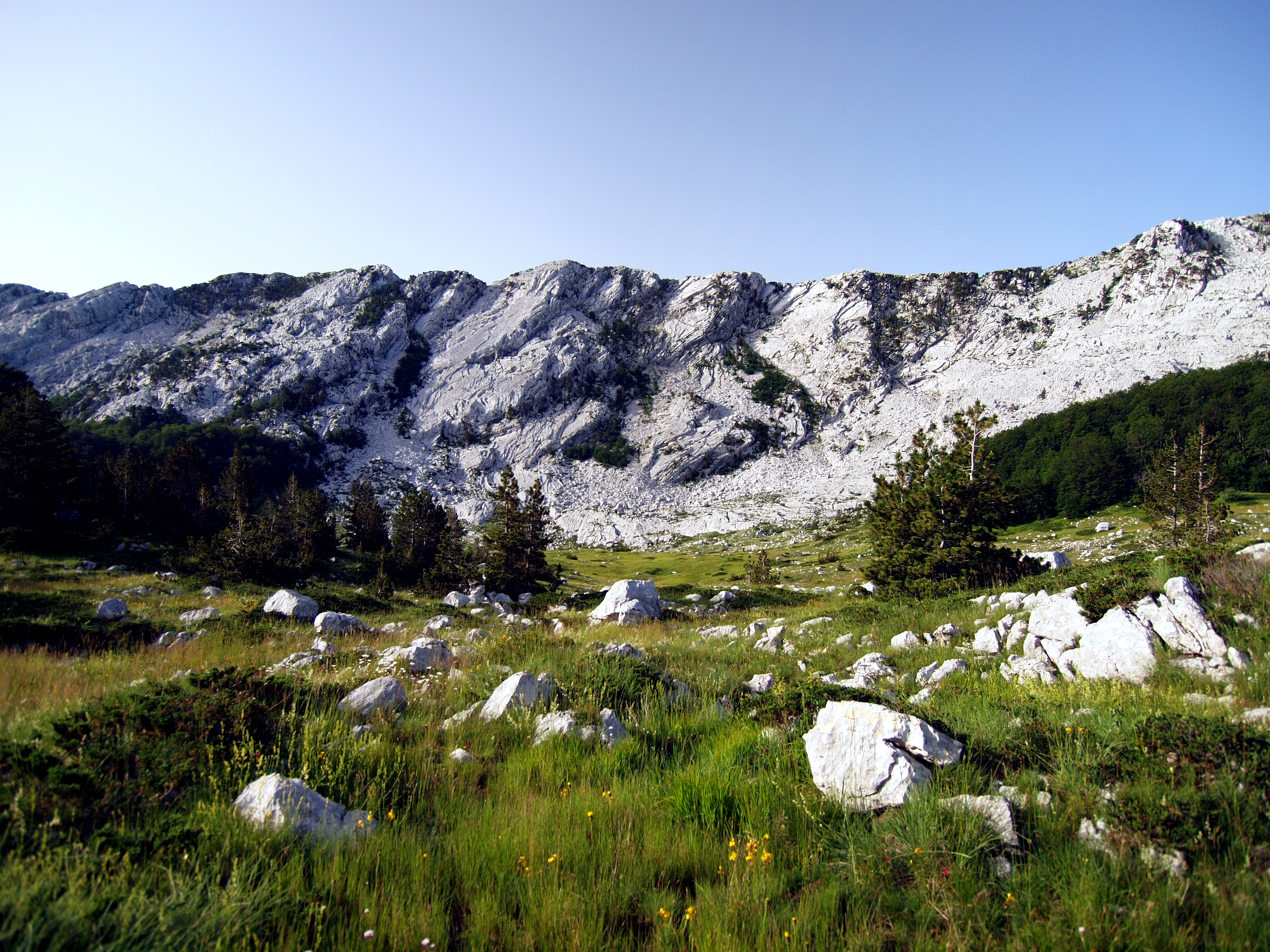 Vucji zub Borovi do Orjen at Bijela gora